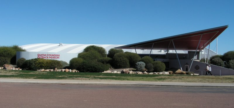 The Qantas Founders Outback Museum, Longreach Airport, Australia, 2007 Picture by User:Camerong